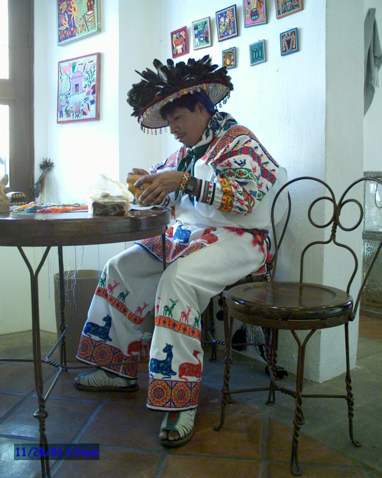 Huichol Trabajando, 20 Dic 2004 by Mario Jareda Beivide